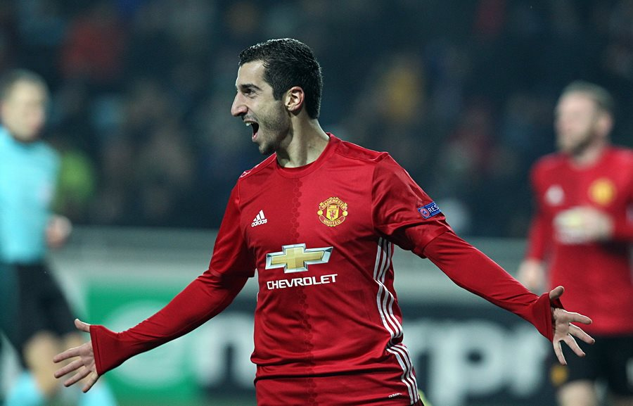 Henrikh Mkhitaryan celebrating a goal for Manchester United during Europa League clash against Zorya Lugansk on 8 December 2016